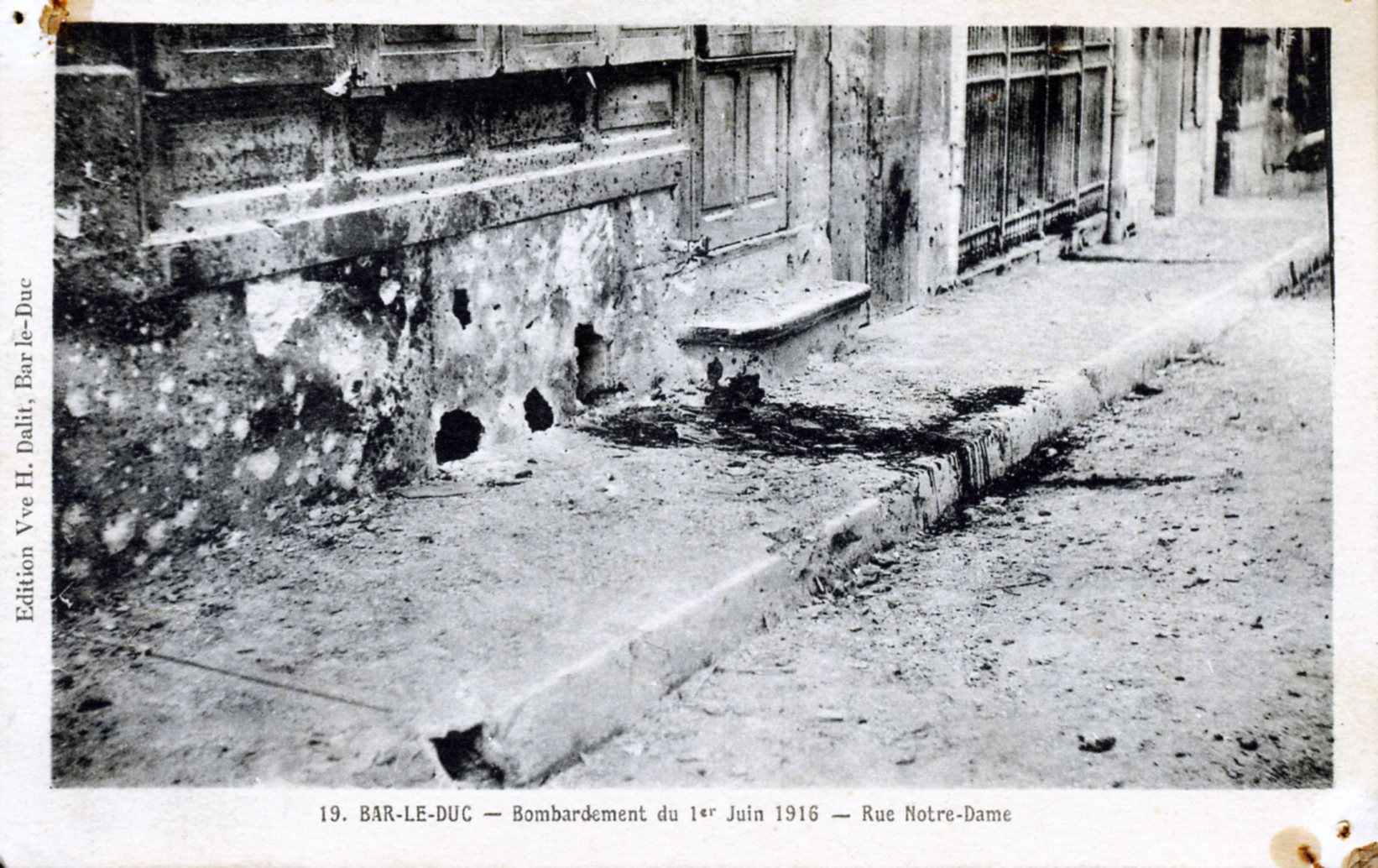 Old postcard of the bombing of Notre-Dame street in Bar-le-Duc the 1st of january 1916.